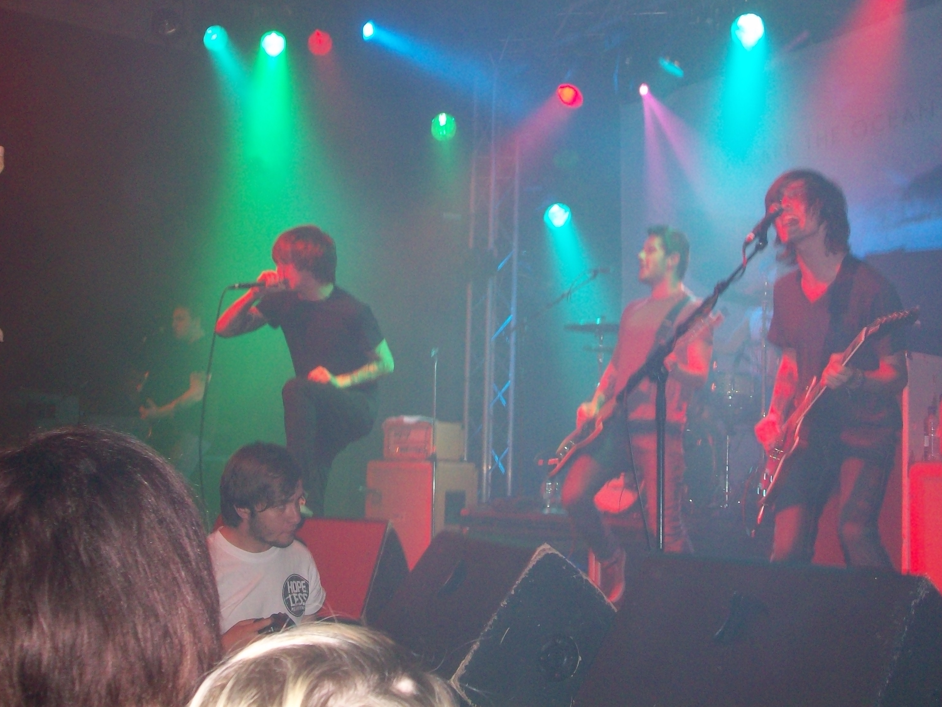 We Are the Ocean perform at the Guildhall Arts Center in Gloucester on the 25th of August 2011.